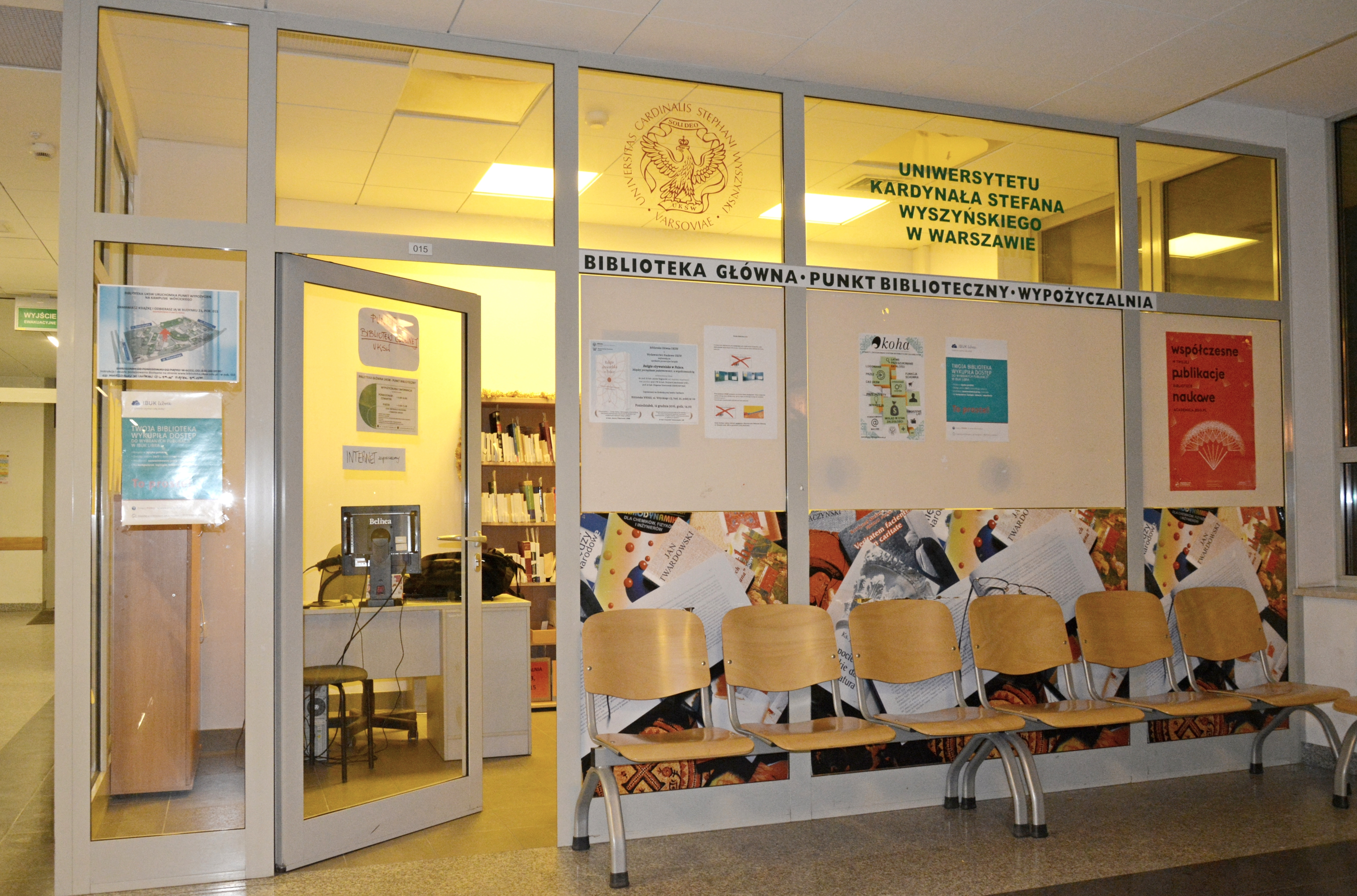 Branch library at Cardinal Stefan Wyszyński University Wojcickiego campus in Warsaw